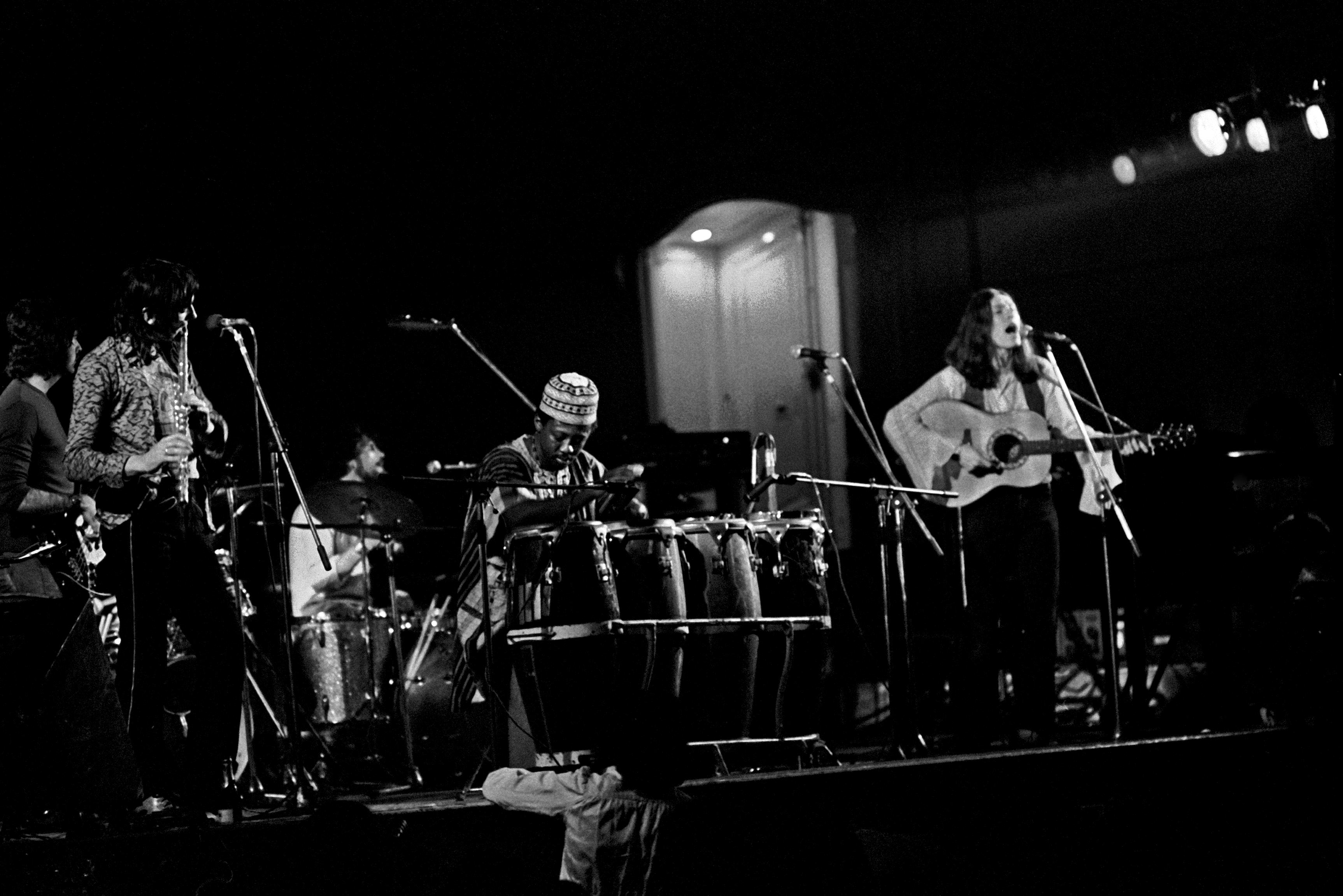 Traffic with Steve Winwood and Pete Brown in 1973 at the Hamburg Music Hall (now the Laeiszhalle).